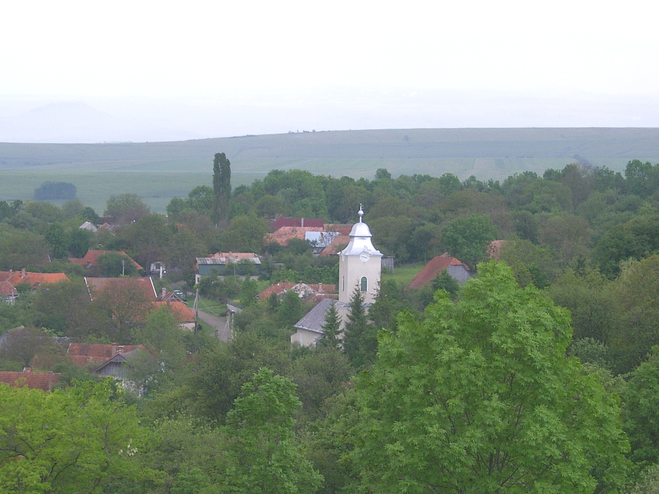 Alunişu, Cluj County, Romania